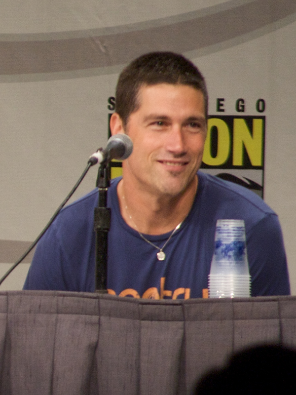 Carlton Cuse, Damon Lindelof, and Matthew Fox at the Comic-Con 2008 Lost panel